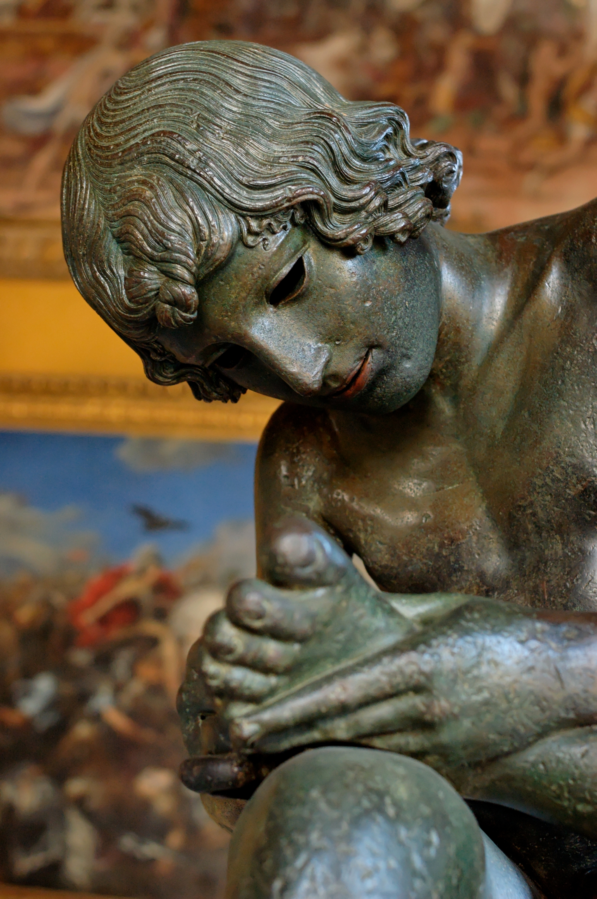 Detail of the Spinario or Thorn-Puller. Greek artwork of the Late Helelnistic era after classical and hellenistic models.